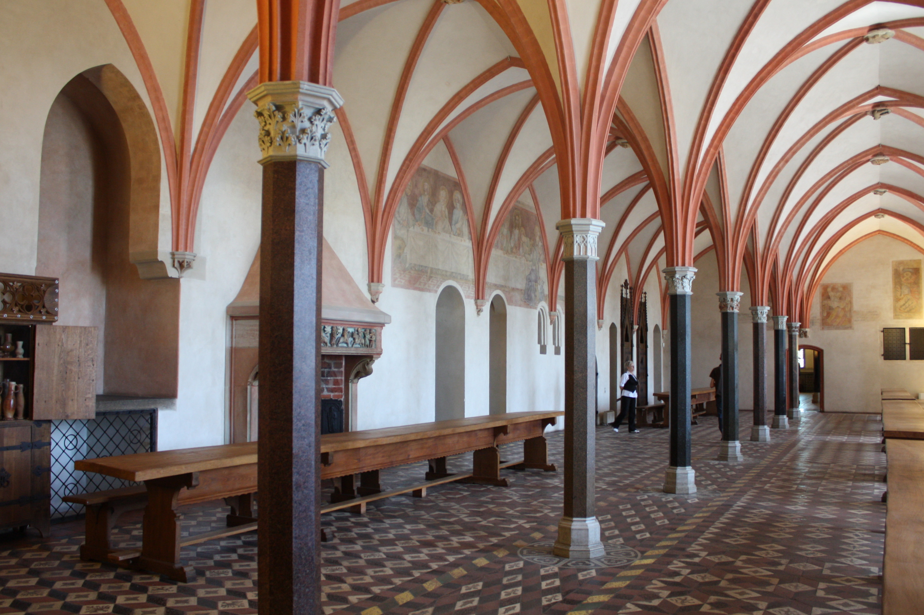 Malbork, Castle of Teutonic Order